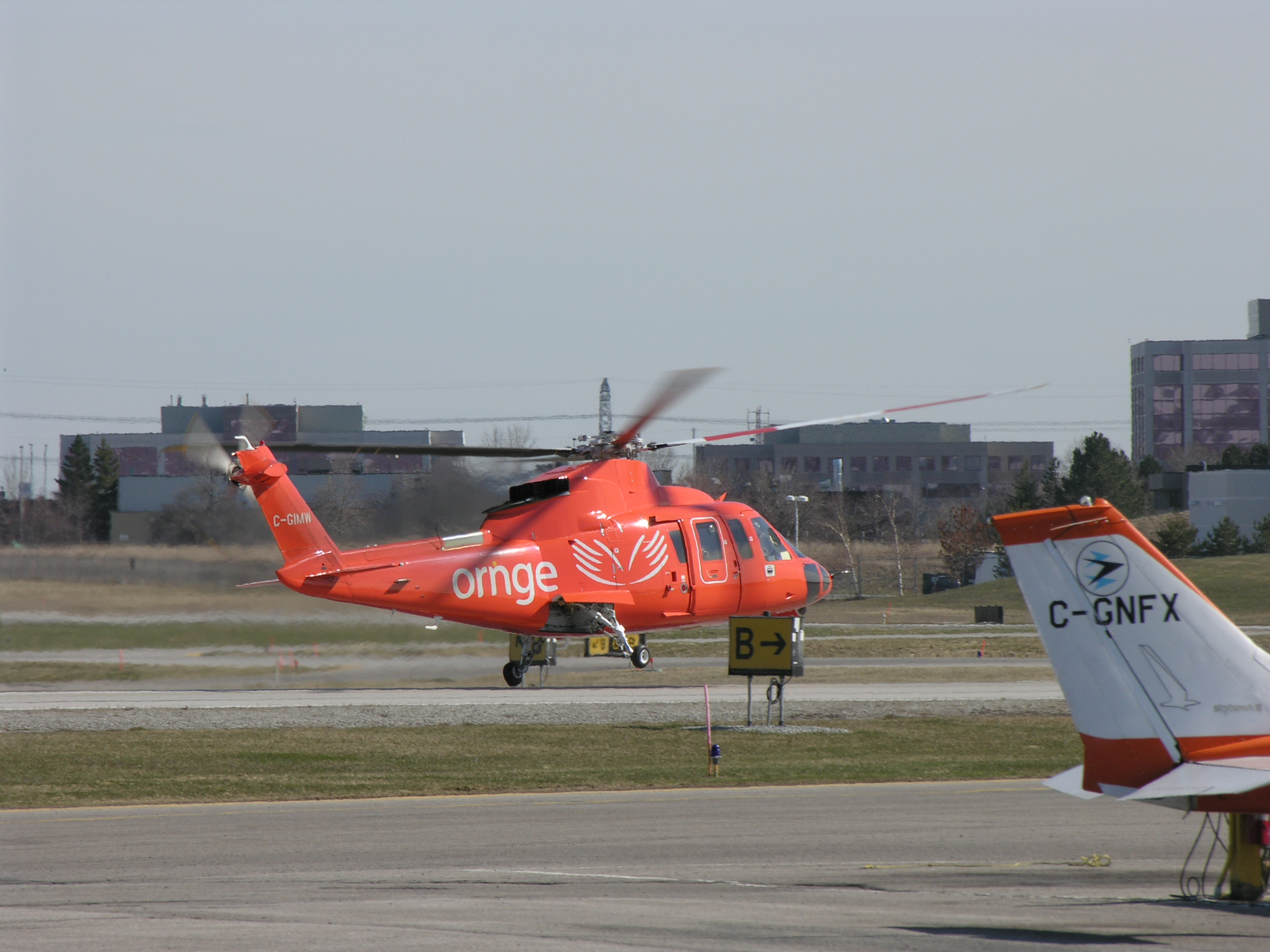 Ornge Sikorsky S-76A C-GIMW lifting off runway 21 at Toronto/Buttonville Municipal Airport.